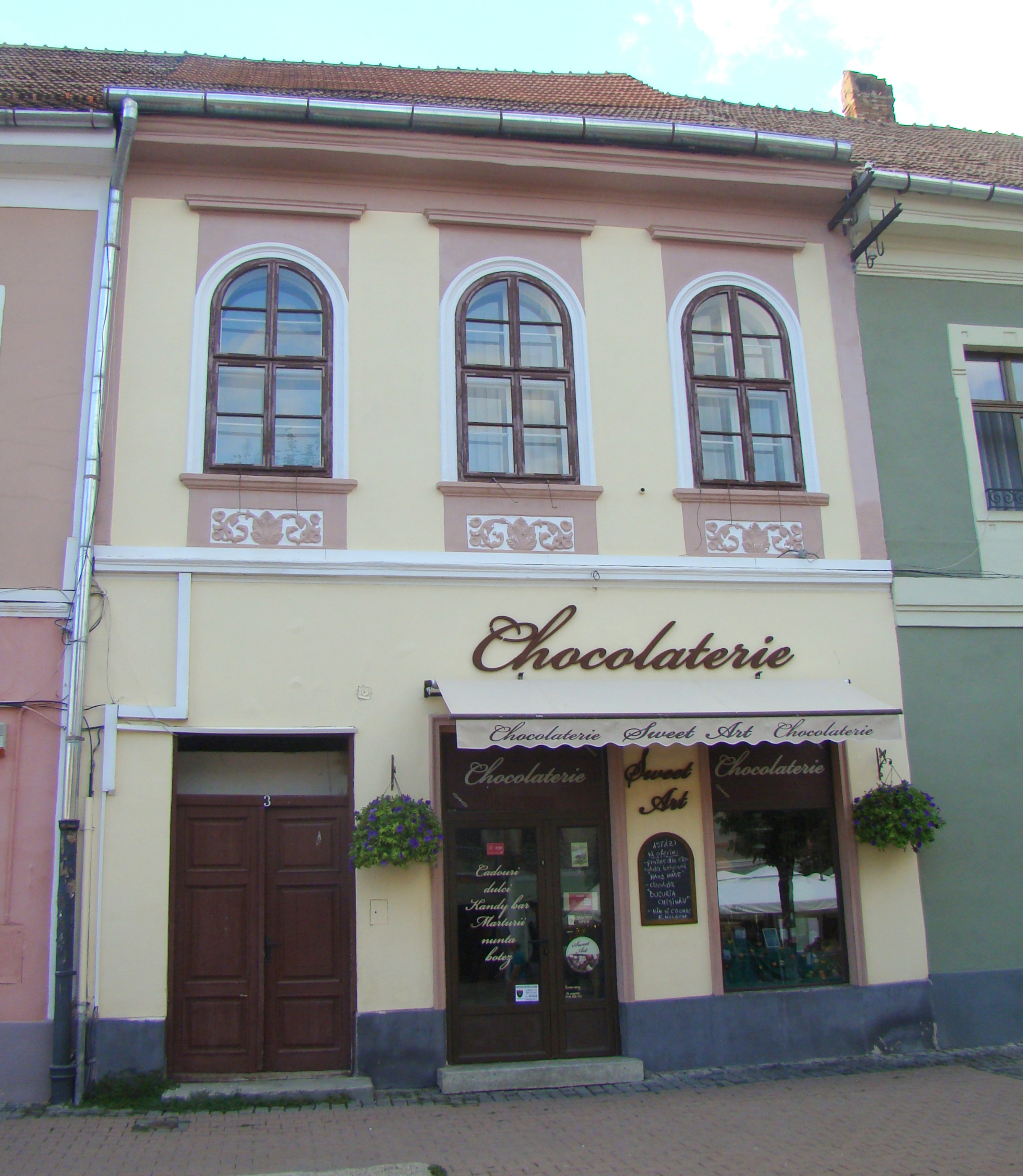 House, historic monument, in Bistrița, Liviu Rebreanu street 3